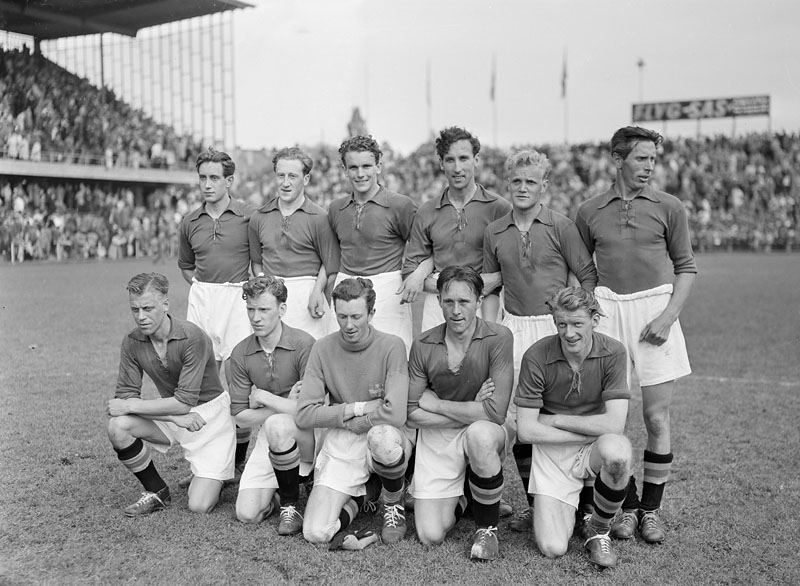 Presslaget 1950. Seger 3-1 över landslaget.